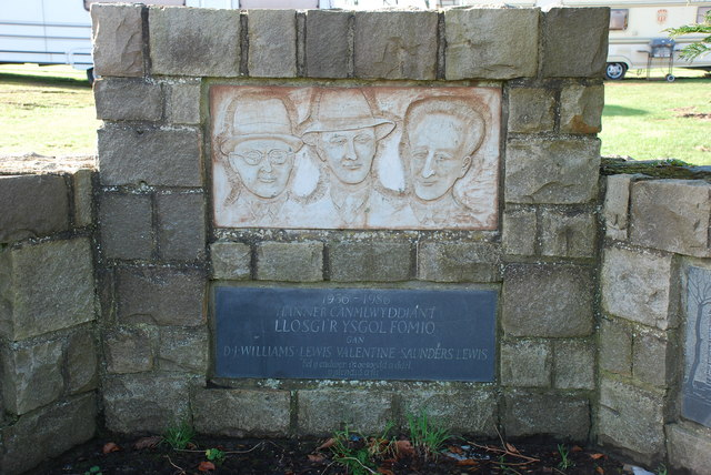 Llosgi'r Ysgol Fomio - The Burning of the Bombing School In September 1936 Saunders Lewis and two other Plaid Cymru members, Rev Lewis Valentine and DJ Williams set fire to the construction hut of a new aerodrome and bombing school being built in Penyberth as part of Britain's build-up to the war. Saunders Lewis, President of Plaid Cymru opposed the site for nationalistic, pacifistic and environmental reasons, saying that the English government was intent upon turning one of the essential homes of Welsh culture, idiom and literature into a place for promoting a barbaric method of warfare.